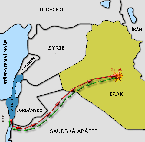 Map of the Operation Opera, bombing of Osirak.